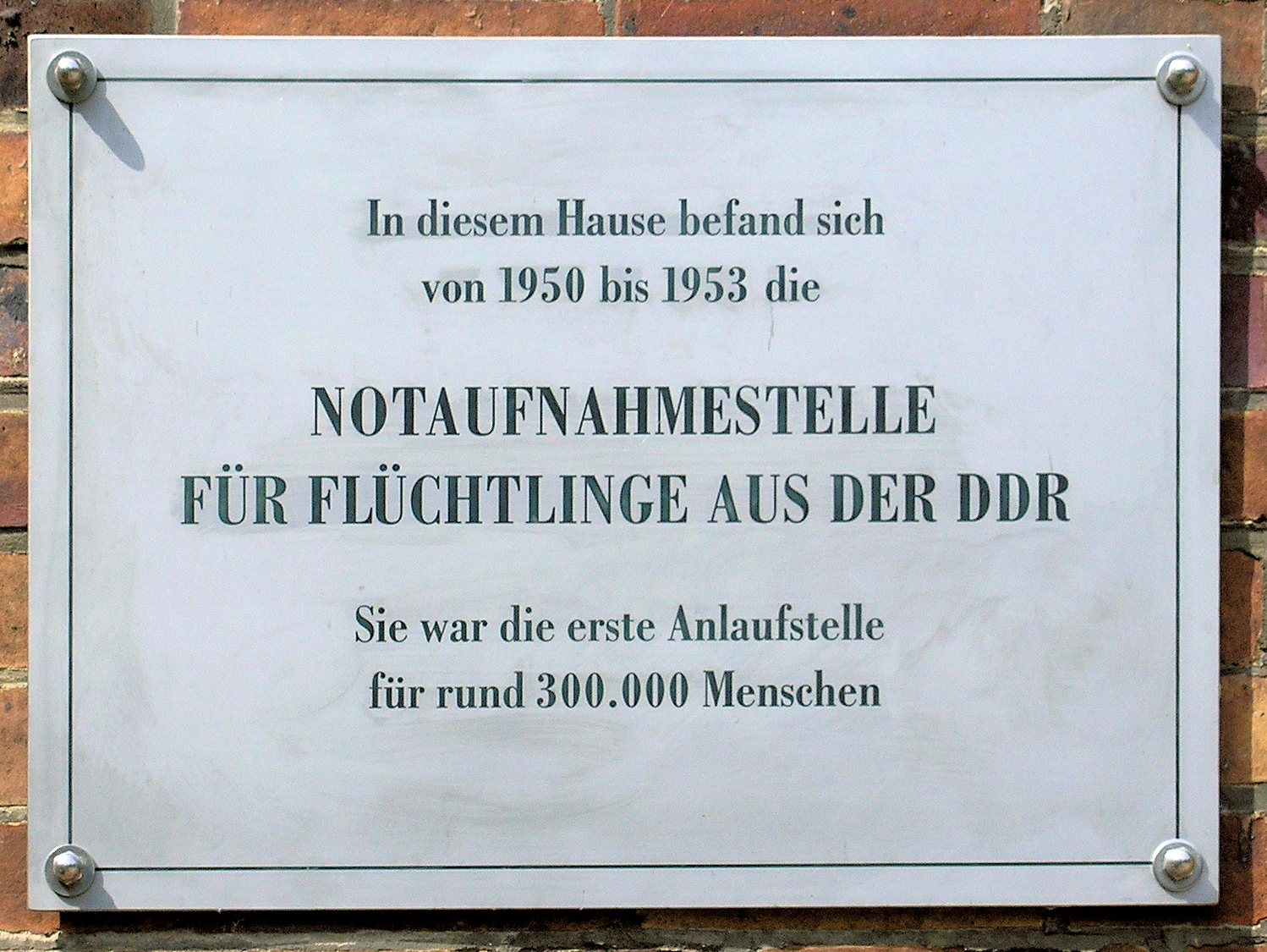 Memorial plaque, Notaufnahmestelle DDR Flüchtlinge, Kuno-Fischer-Straße 8, Berlin-Charlottenburg, Germany Koordinate:52°30′17.8″N 13°17′25″E / 52.504944°N 13.29028°E